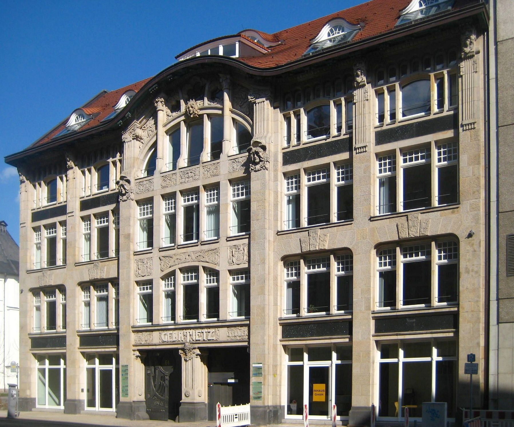 ommercial building at Klosterstraße 64 in Berlin-Mitte, built 1904-1906 for the brothers Georg and Heinrich Tietz by architect Georg Lewy. The four-story building with two inner yards is much larger than the front suggests and almost spans the whole block up to Waisenstraße. It was originally occupied by several textile firms. Ornaments of the sandstone facade are in the Art Nouveau style. The building has been designated as a historic landmark.